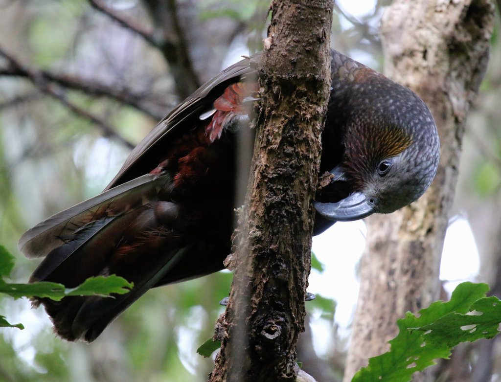 Kaka have very strong beaks that can easily drill into wood